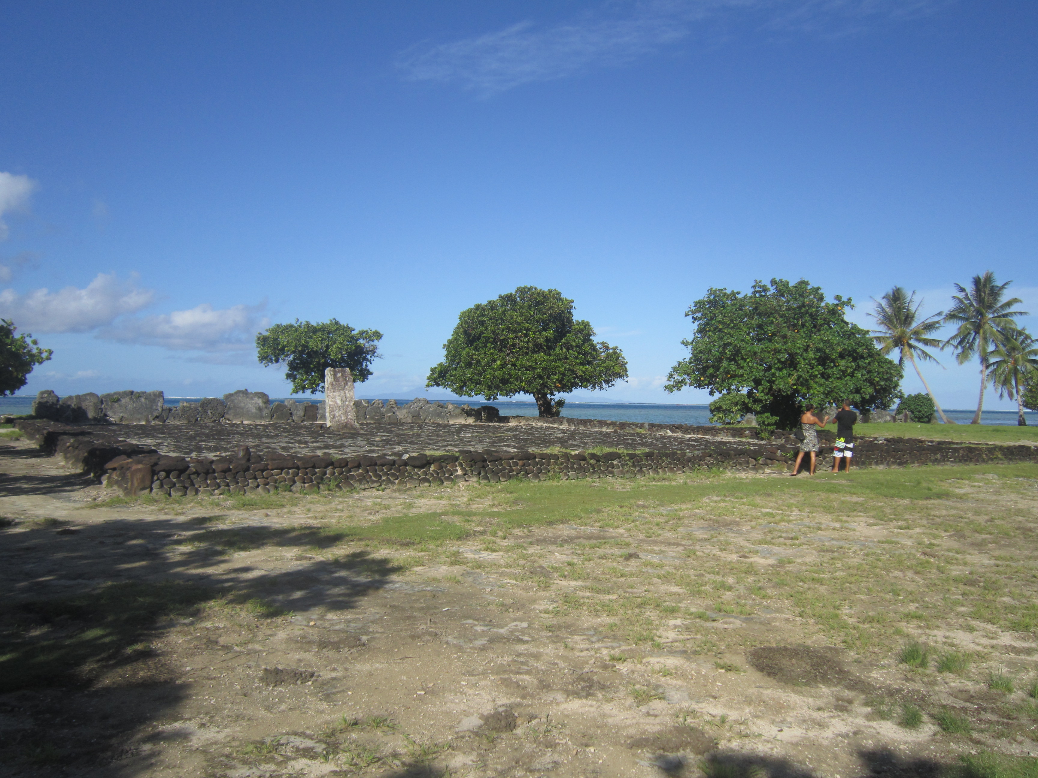 Marae Taura’a a tapu aka Hauviri, Te Pō complex, Ōpoā valley, Ra’iātea.